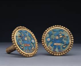 Moche Ear Ornaments. 1-800 AD. Larco Museum Collection. Lima-Peru Larco Museum Native nameMuseo Arqueológico Rafael Larco HerreraLocationAv. Bolivar 1515, Pueblo Libre, Lima, PeruCoordinates12° 04′ 20.99″ S, 77° 04′ 15.1″ W Established28 July 1926Web page control : Q1954240 VIAF: 123465272 ISNI: 0000 0001 2150 3342 LCCN: no97060570 GND: 5268907-4 WorldCat institution QS:P195,Q1954240